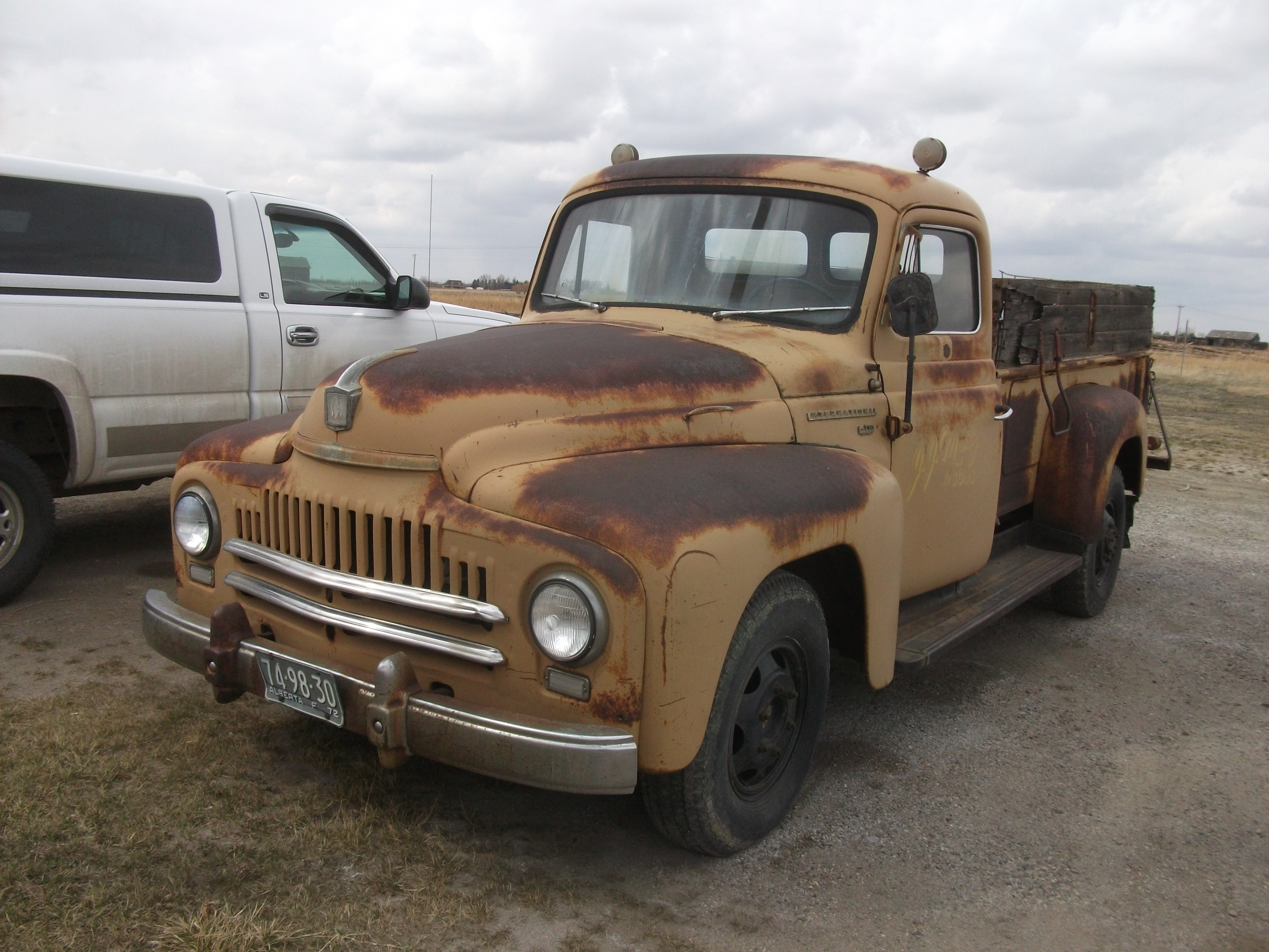 Fantastic old International L-130 series truck with great patina on it.